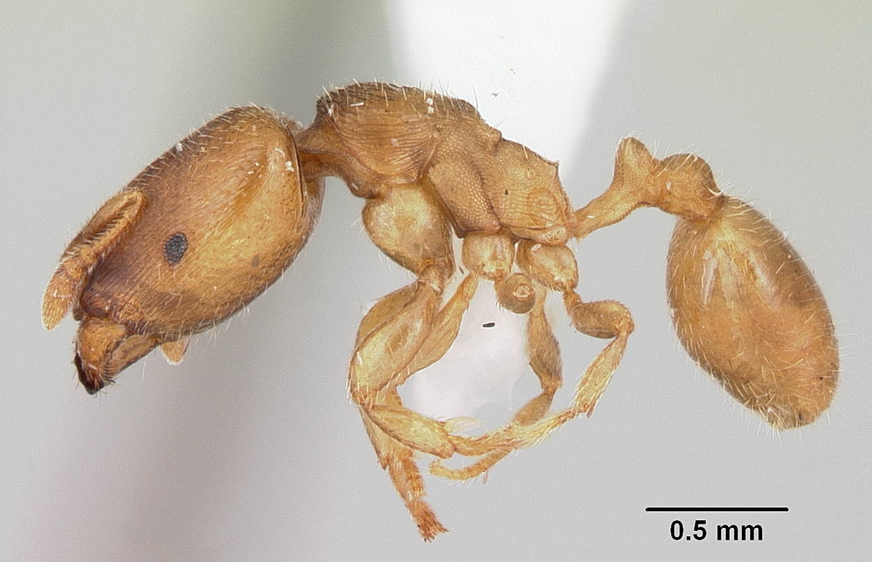 Profile view of ant Adlerzia froggatti specimen casent0104323.